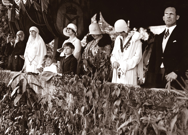 King Michael of Romania and the Royal Family. Date 1927-1930 Familia Regal